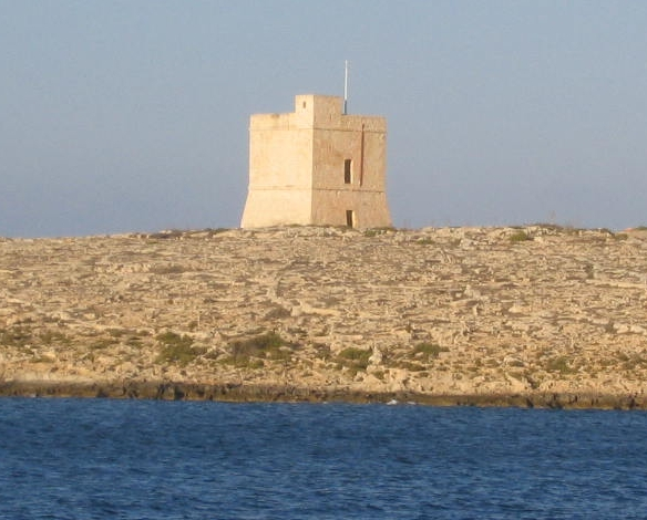 Qualet Marku or St Marks Tower, Malta. Looking seaward across Qrejten Point. Copyright 2006 H.J.Moyes All Rights Reserved. This media is about Maltese cultural property with inventory number 34.